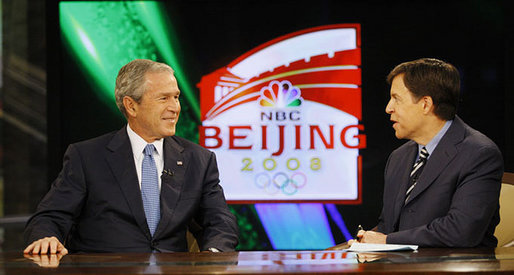 US President George W. Bush speaks with Bob Costas of NBC Sports during an interview ``while attending the 2008 Summer Olympic Games in Beijing.